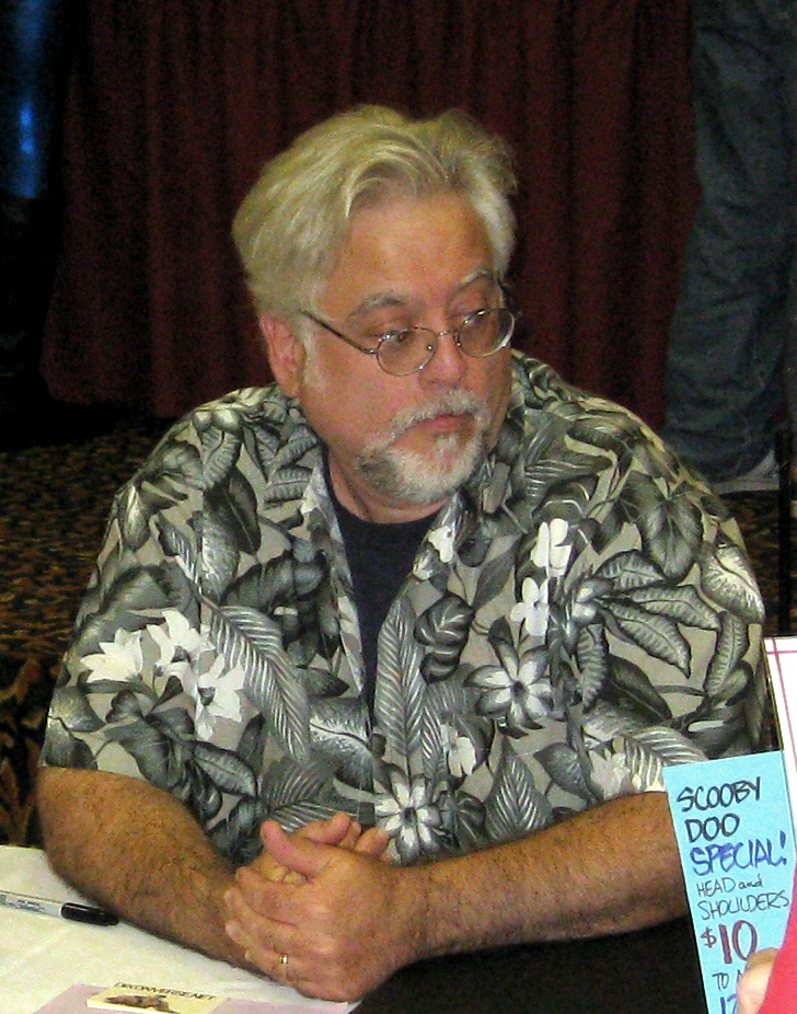 American comic book writer Chuck Dixon at the Tampa Convention, November 2007